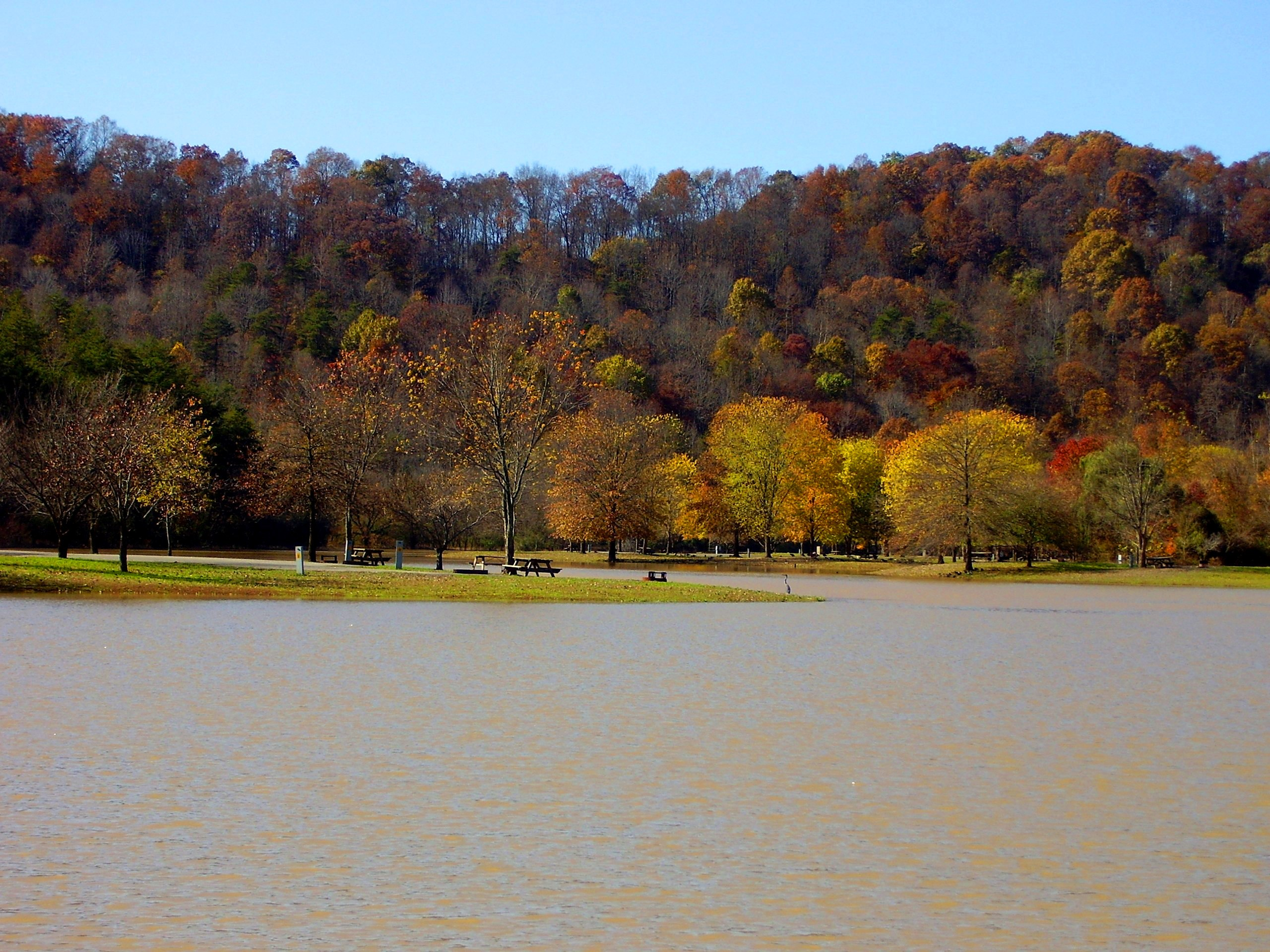 Photo of Beech Fork Lake at Beech Fork State Park in Wayne County, West Virginia, looking west from a road approaching a small automobile bridge.